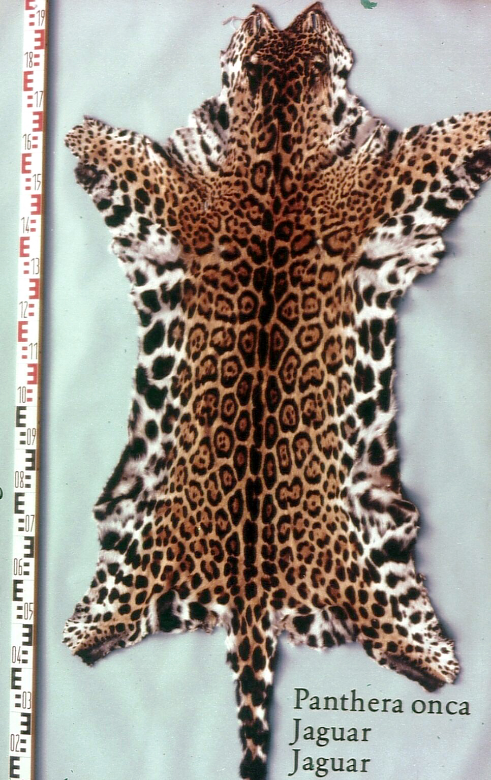 Jaguar skin (Panthera onca). Fur skin collection, Bundes-Pelzfachschule, Frankfurt/Main, Germany